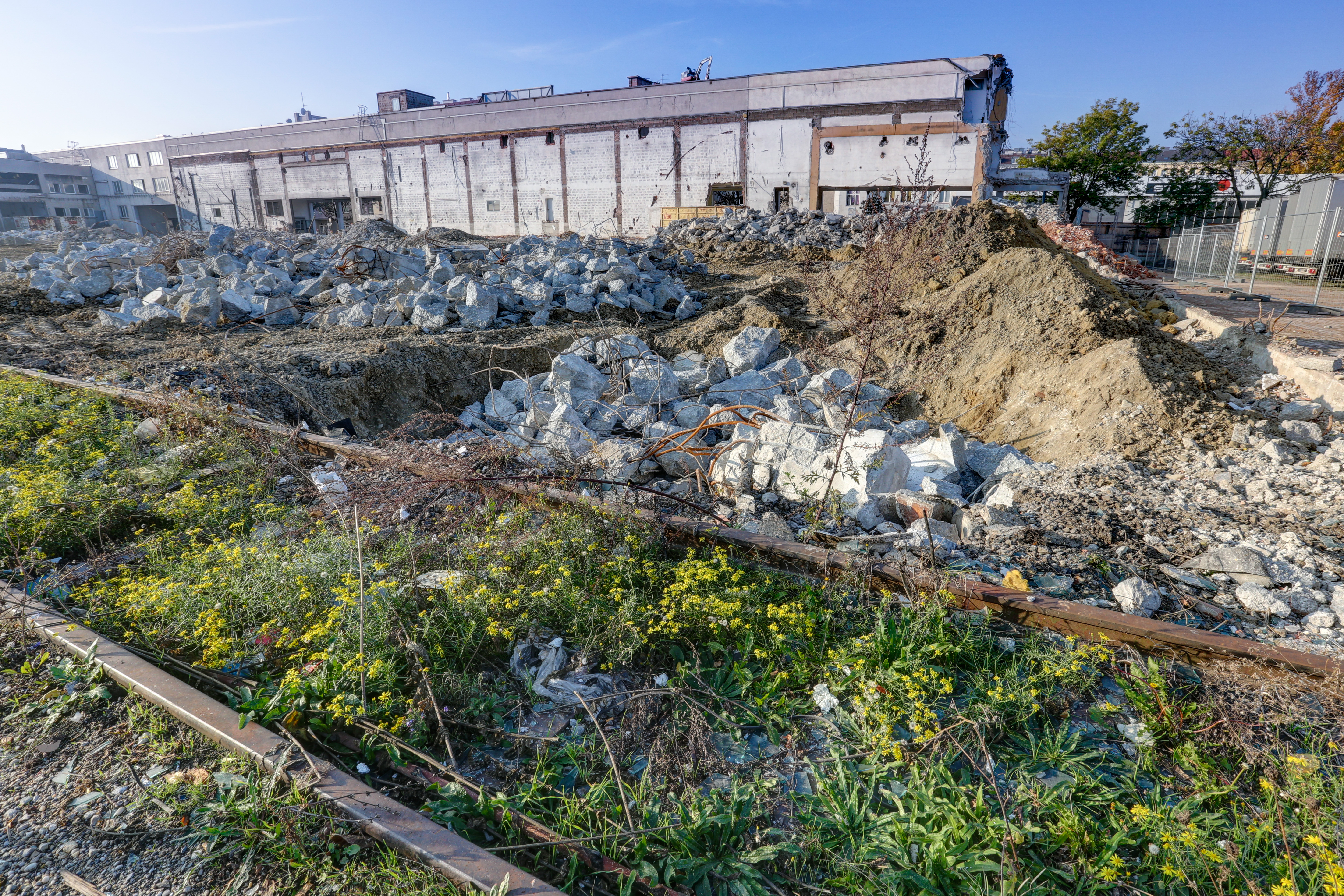 Demolition work on the Northwest Railway Station in Brigittenau, the XX. district of Vienna / Austria / EU. At this point (front: Nordwestbahnstraße 12-14 / back: Ladestraße 1) stood Böhler International and Böhler Wärmebehandlung.